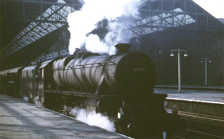 Photograph of he departures end of Liverpool Exchange station taken on 4 May 1968